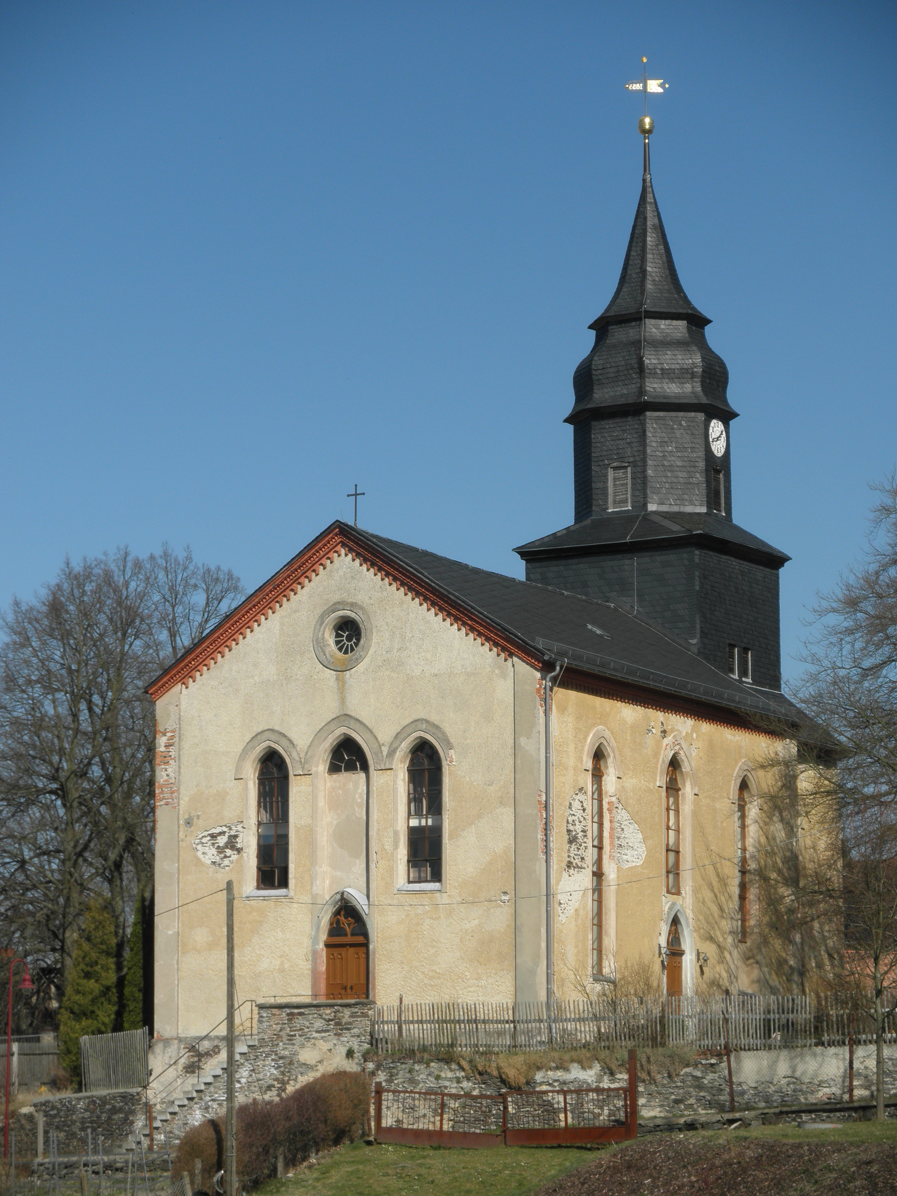 Church in Knau in Thuringia